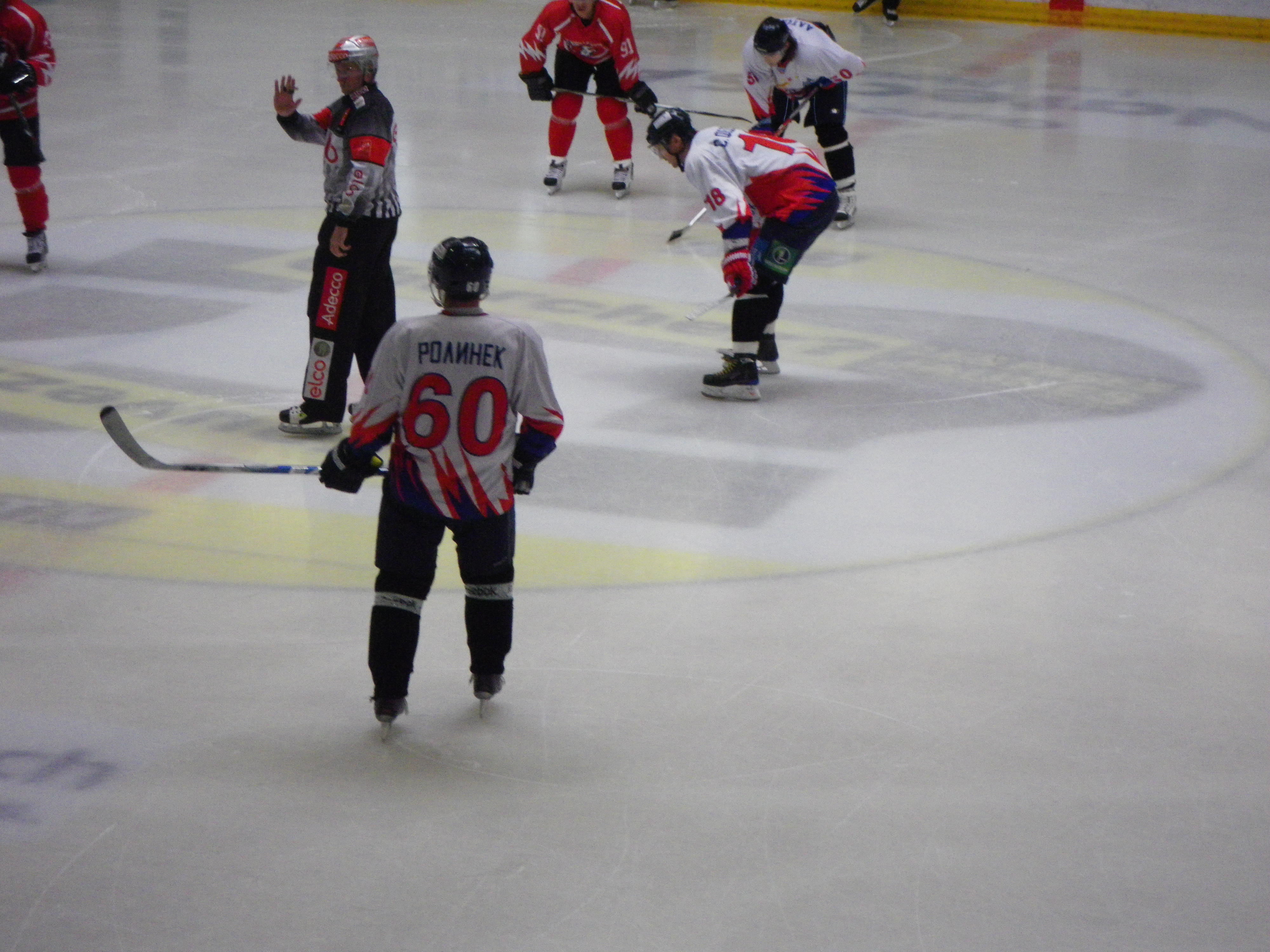 Tomáš Rolinek, czech ice hockey player with Metallurg Magnitogorsk